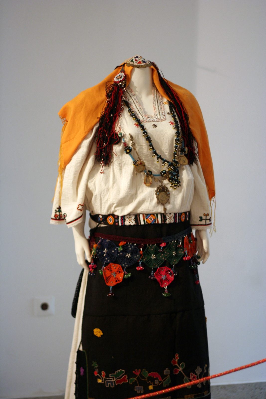 Veshje Tradicionale